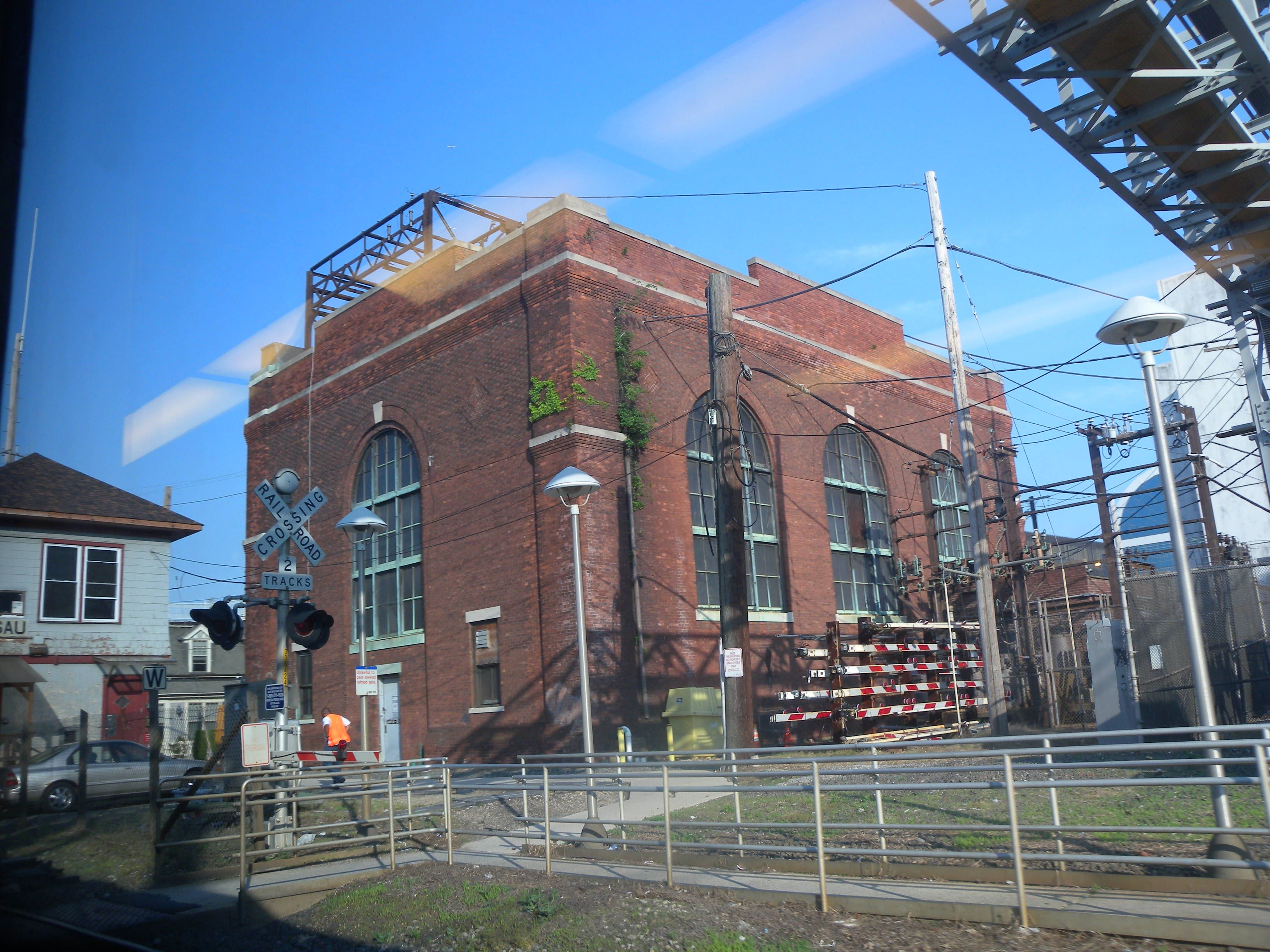 Looking east from westbound train at Main Street powerhouse on a sunny late afternoon. Nassau Interlocking is glimpsed at left.